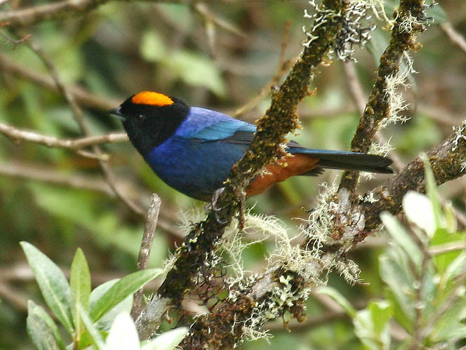 A Golden-crowned Tanager (Iridosornis rufivertex) photographed in Yanacocha, Ecuador. 3/8/2007